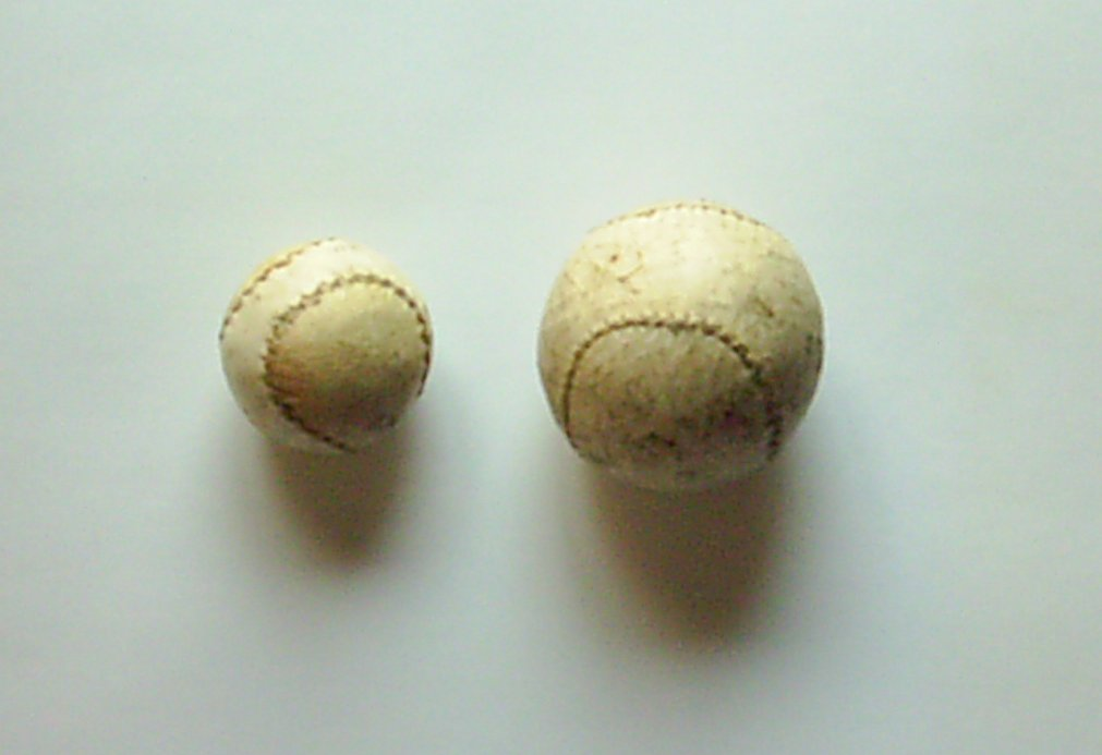 Balls used to play handball. Left, Valencian pilota (42 gram); Right, Basque pelota (102 g).